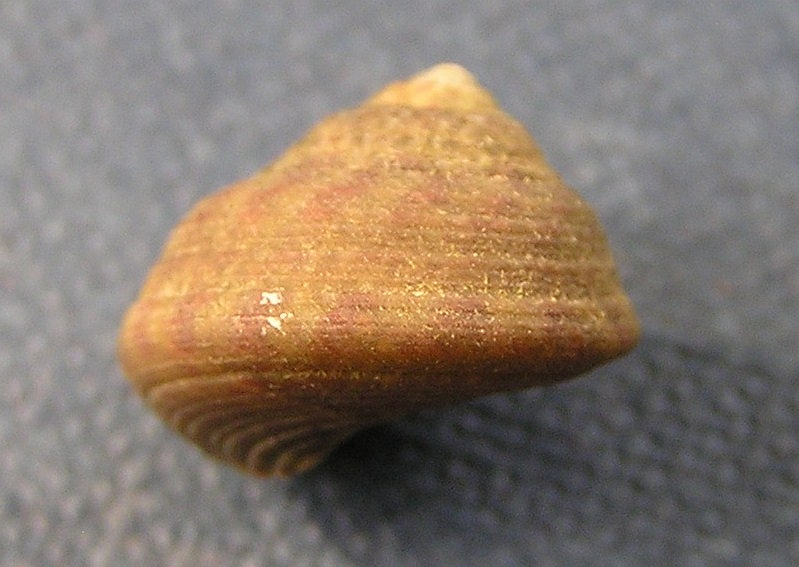 Phorcus sauciatus (Koch, 1845) (synonym : Osilinus sauciatus, Monodonta (Osilinus) edulis sauciata), a top snail in the family Trochidae; Tenerife, Canaries.